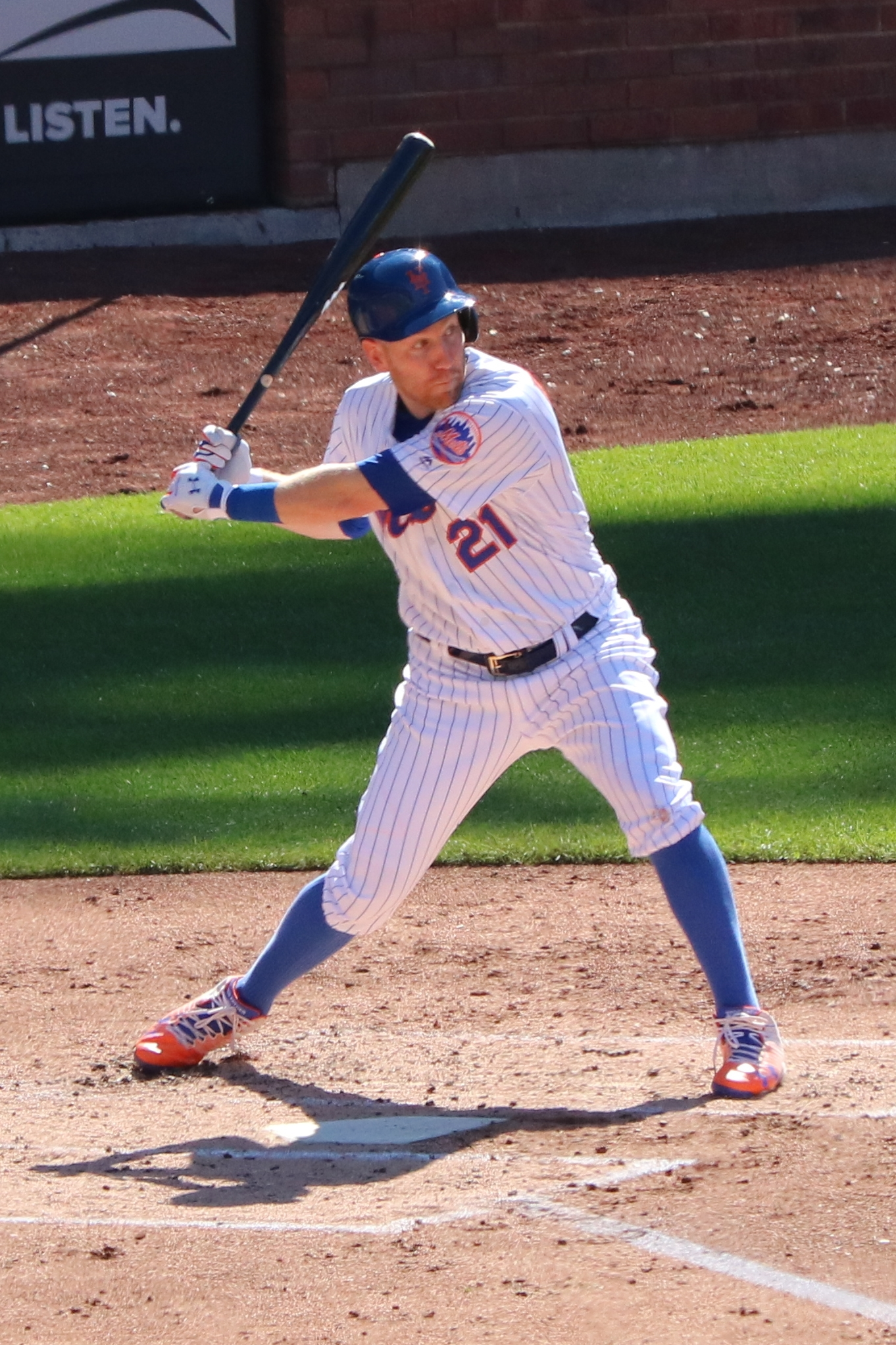 Todd Frazier at bat, July 7, 2018